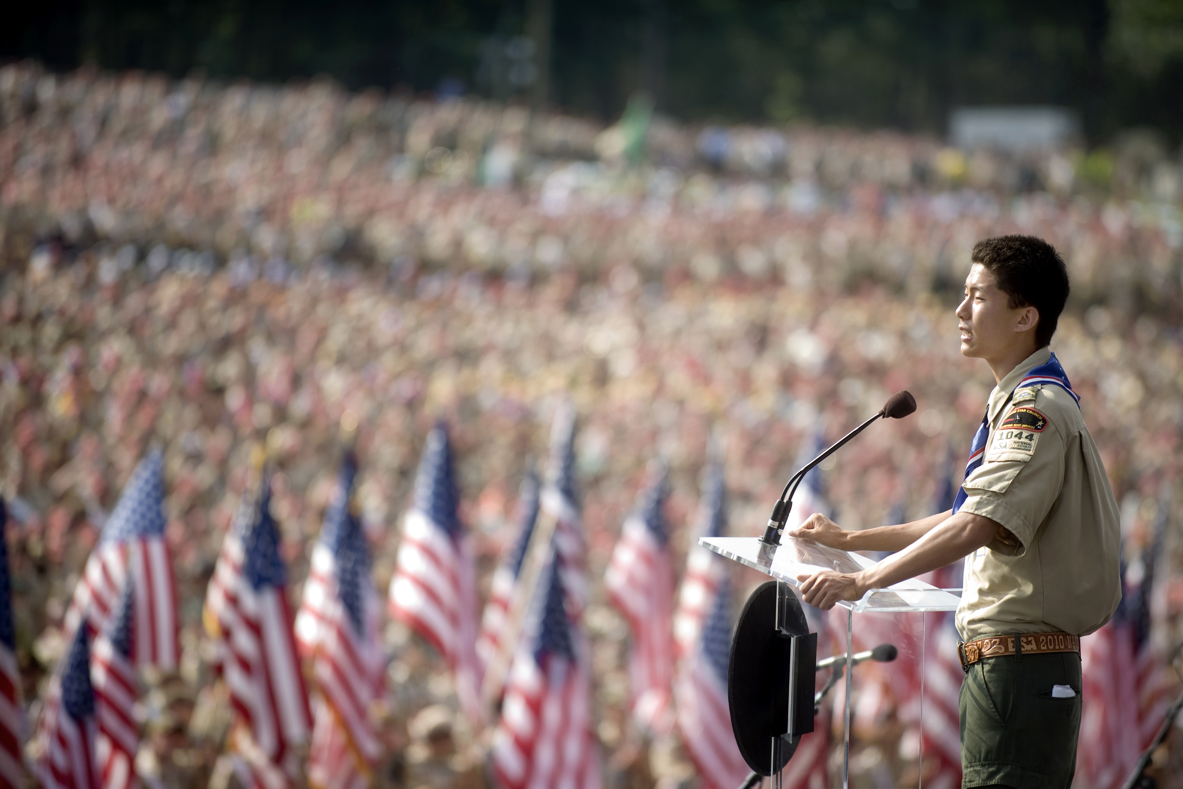 The two millionth Eagle Scout Anthony Thomas addresses an audience of more than 45,000 during the Boy Scouts of America 2010 National Scout Jamboree on Fort AP Hill, Va., July 28, 2010.